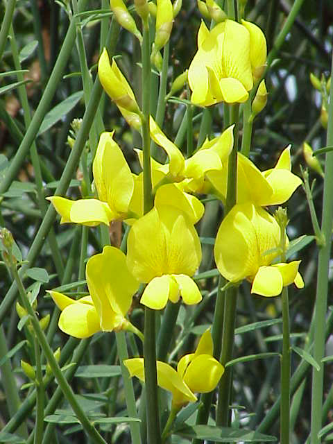 Species: Spartium junceum Family: Fabaceae Image No. 3